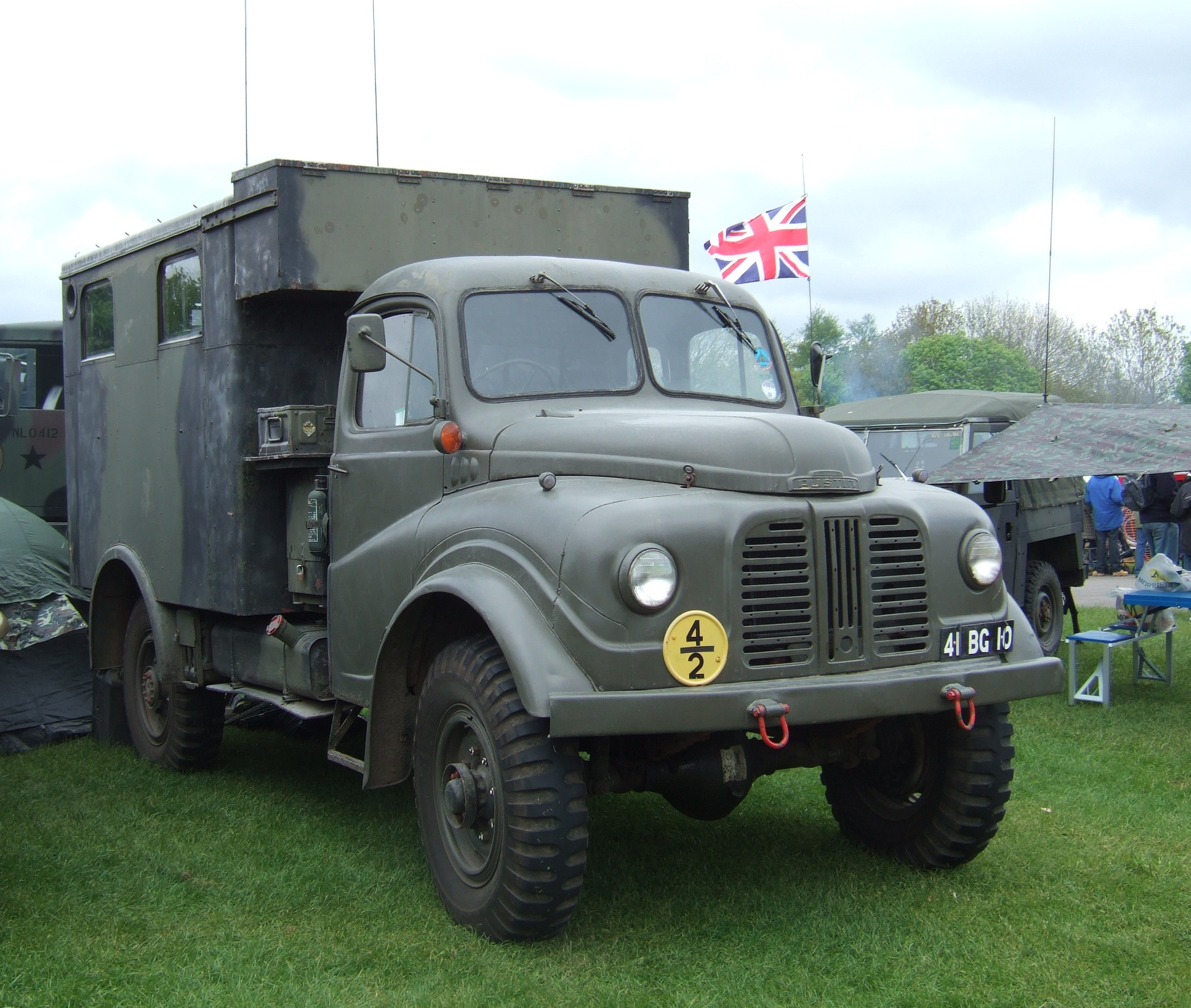 Austin K9 FFW (Fitted For Wireless) Castle Coombe steam rally, 2010.